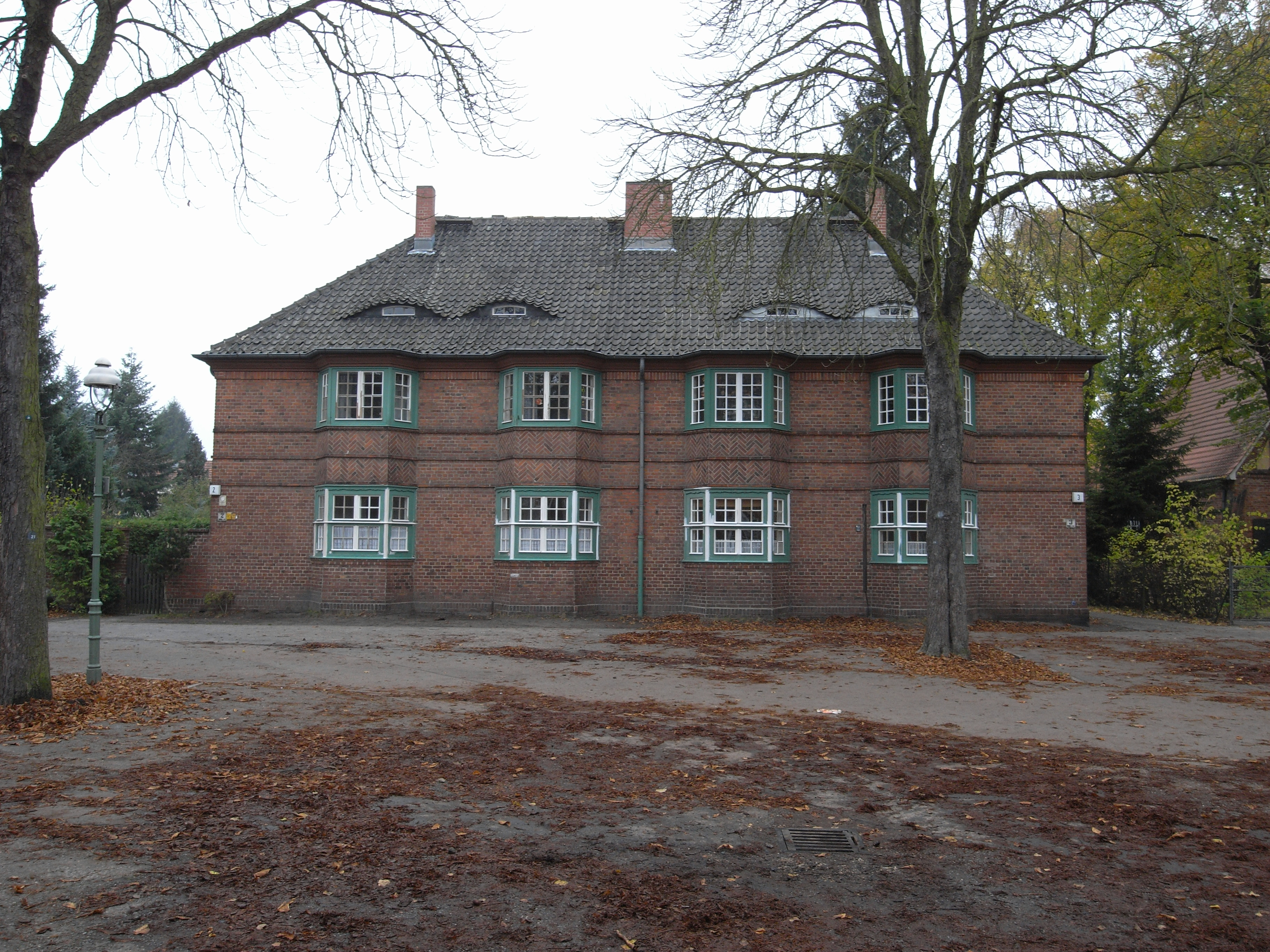 House on the church square of the Garden City Staaken (1914-17) near Berlin of the architect Paul Schmitthenner